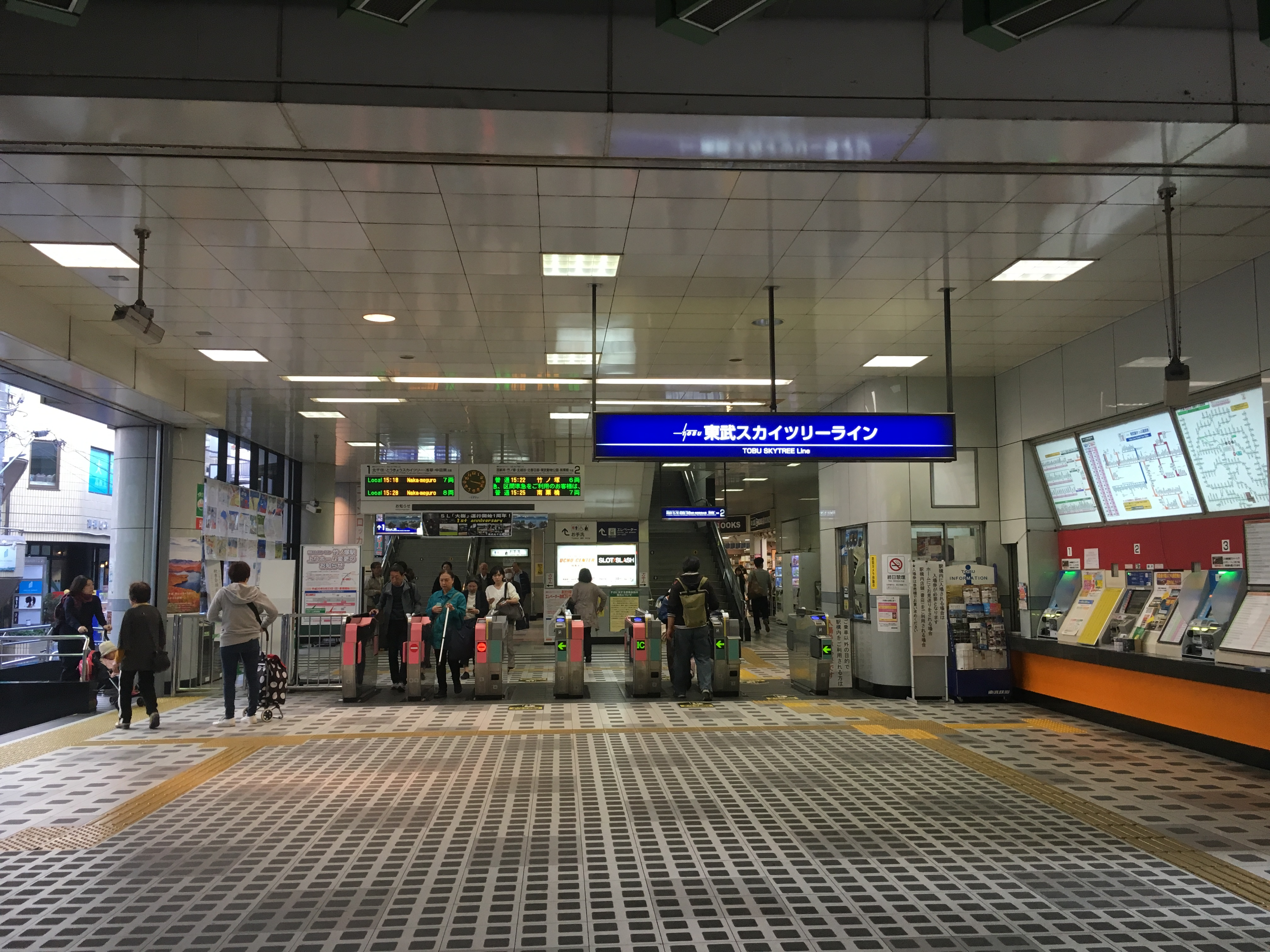 梅島駅の改札 (Umejima Station ticket gates)